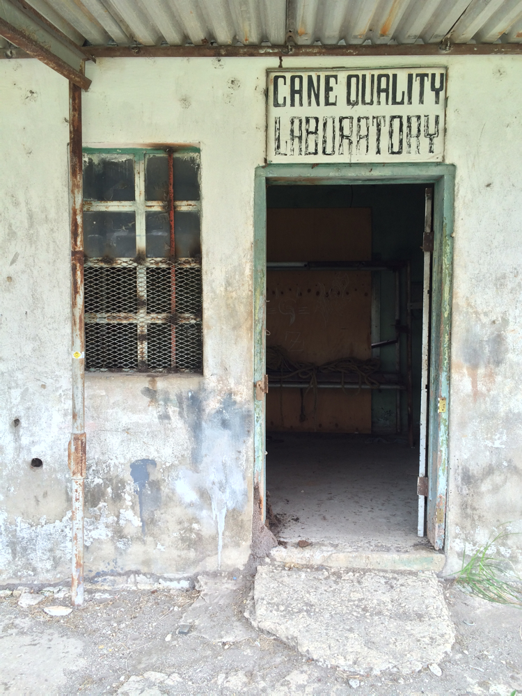 Lab for testing cane quality